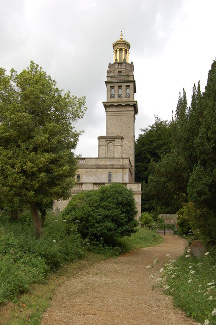 Beckford's Tower Beckford’s Tower was designed by Henry Edmund Goodridge in 1825 and completed in 1827 for William Beckford (1760-1844), one of the nation’s most accomplished and interesting characters. The 120-foot neo-classical Tower, which enjoys uninterrupted views of the countryside, was constructed as a study retreat and to house Beckford’s precious collection of art and rare books.